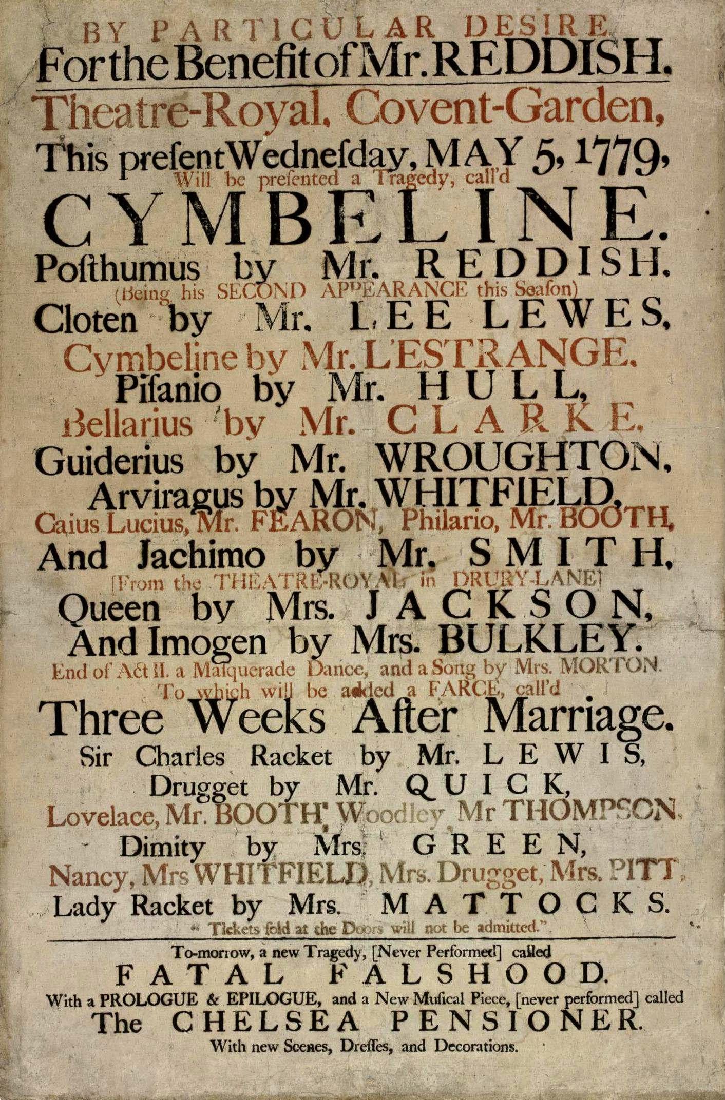 Playbill mentioning actress and dancer Mary Bulkley (1747/8-1792) as Imogen in Cymbeline, 1779. She was born Mary Wilford; her two married names were Bulkley and Barrisford. She was known professionally as Mrs Bulkley. Her biography is here.